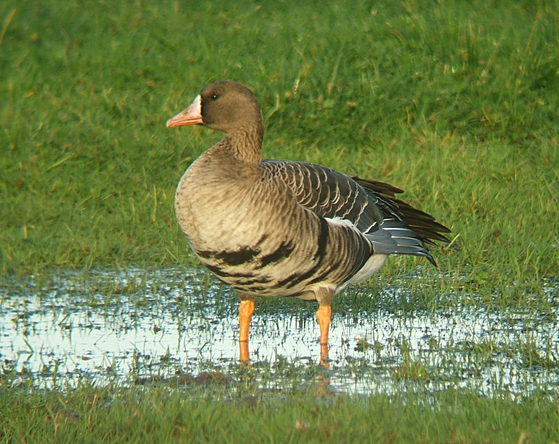 Anser albifrons albifrons, Swallow Pond, Northumberland. One of flock of eight birds.